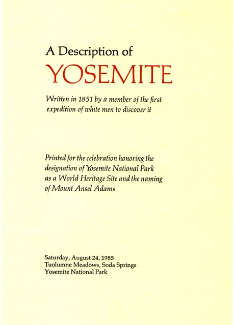 scanned page